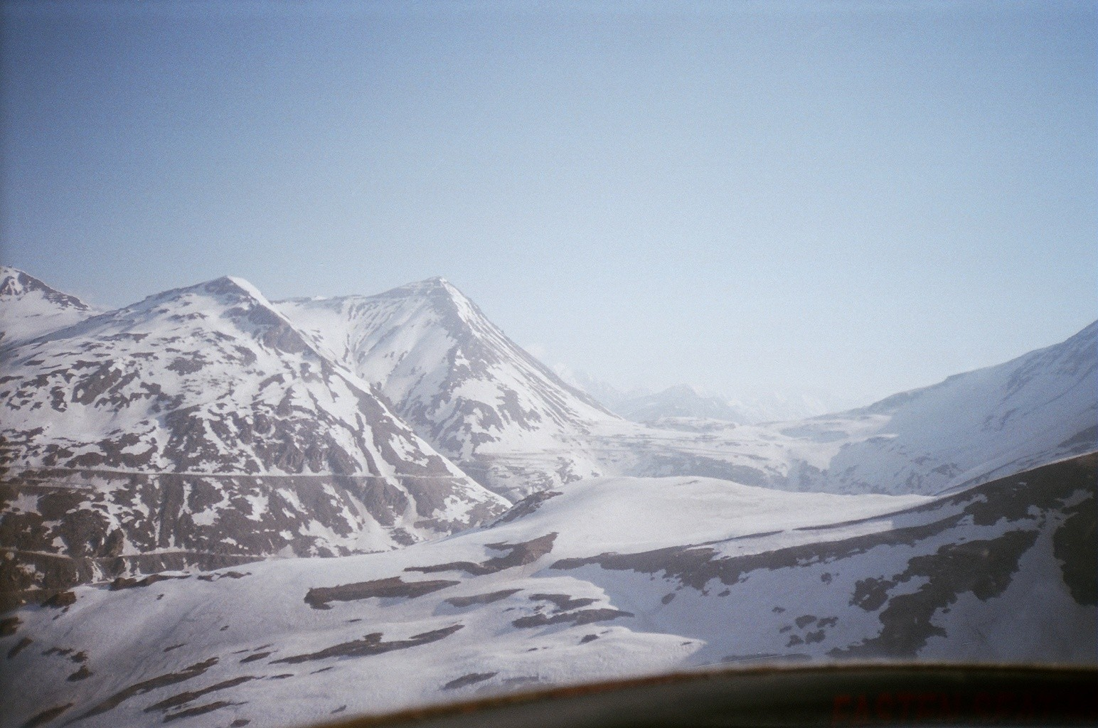 Lahaul valley in Winter